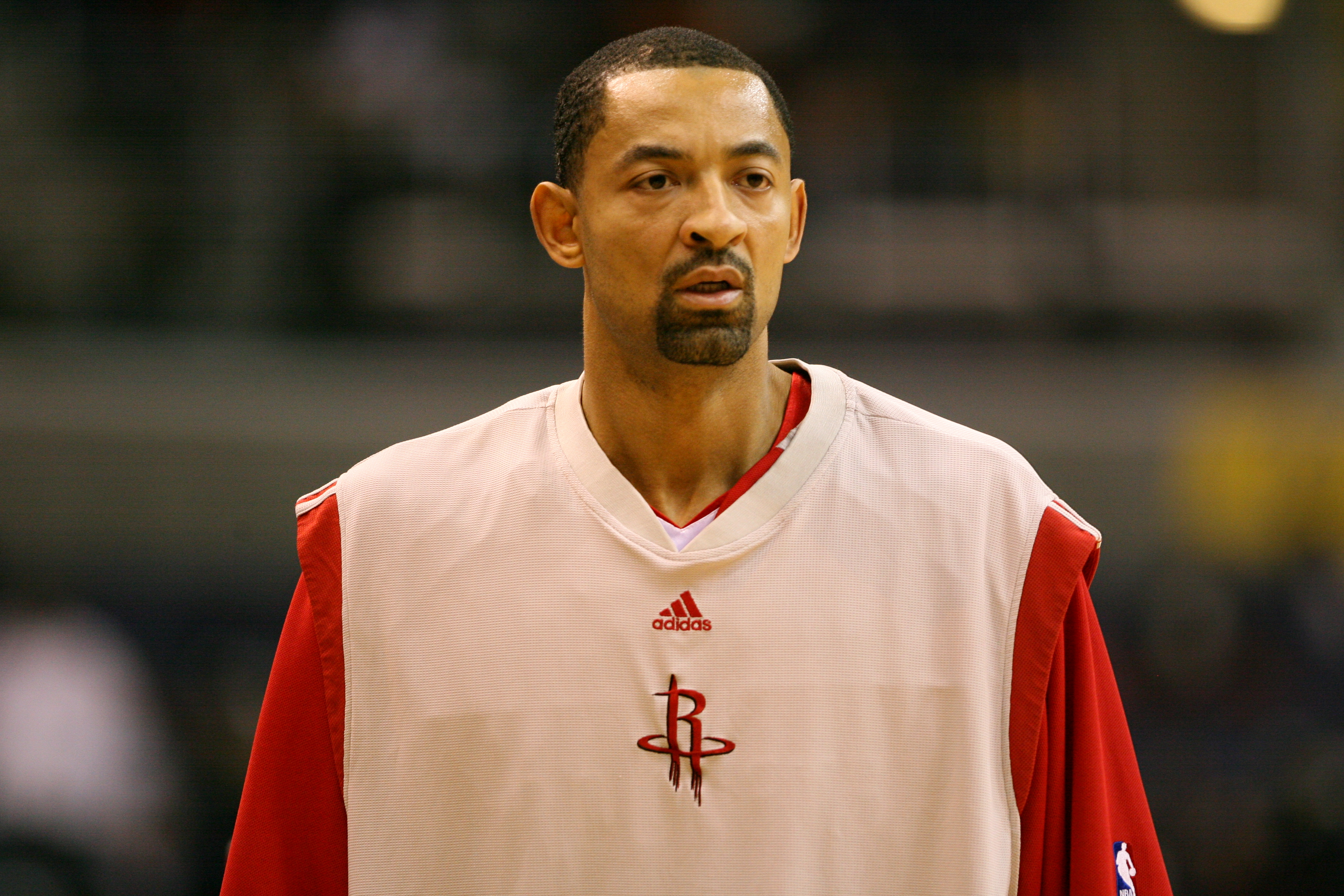 Juwan Howard playing with the Houston Rockets